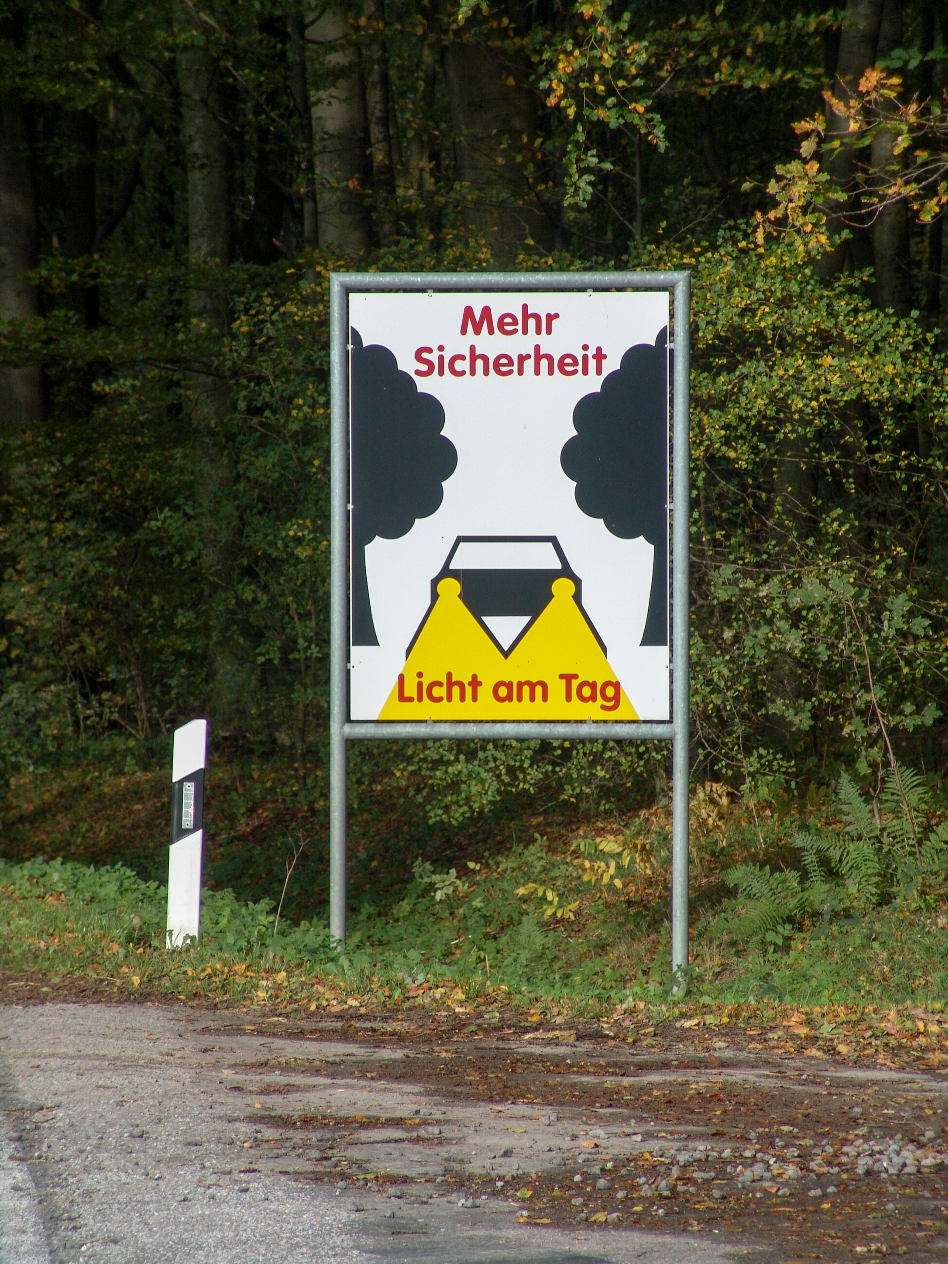 Road sign - daylight running lamp